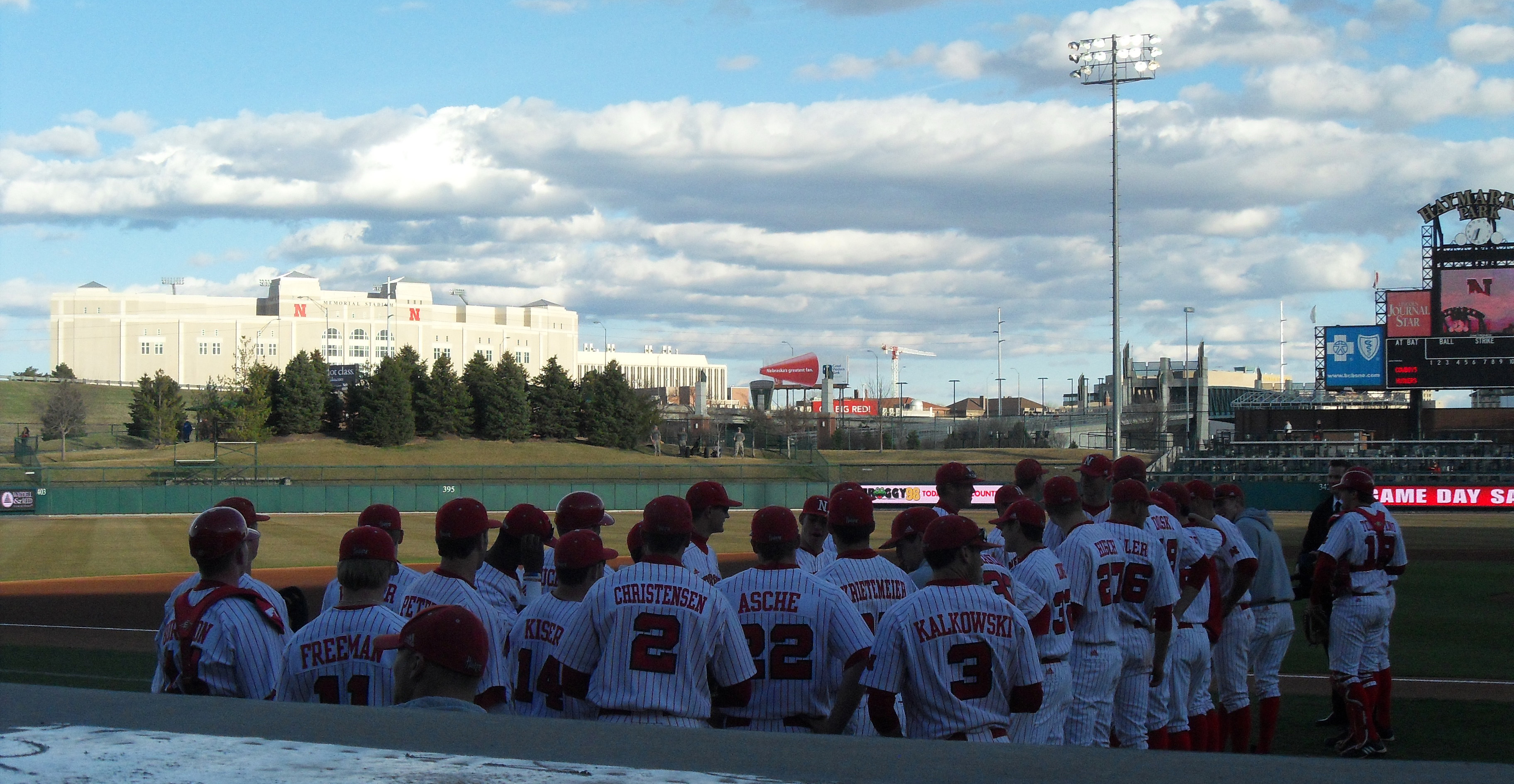 My photograph of the Nebraska Cornhuskers baseball team about to take the field.